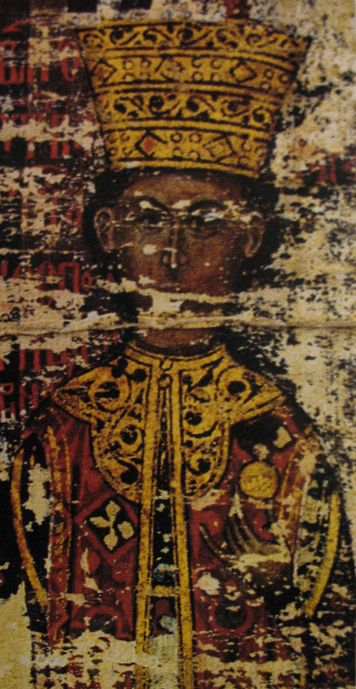 The ilustration of despot Mara Branković in Esphigmenou charter from 1429.